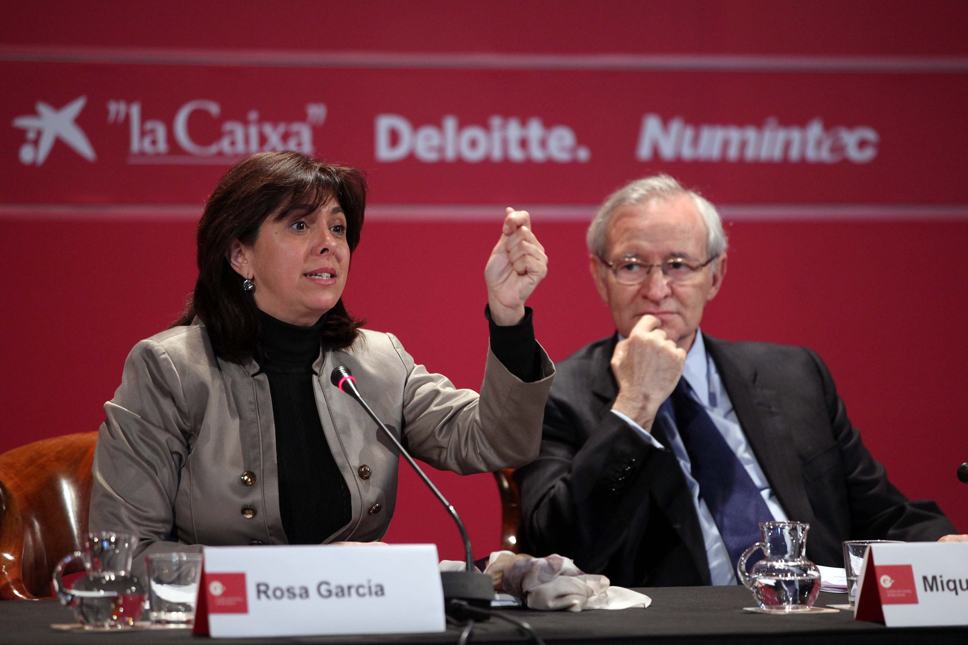 La presidenta de Siemens España reflexiona sobre com aconseguir una economia d'èxit sostenible